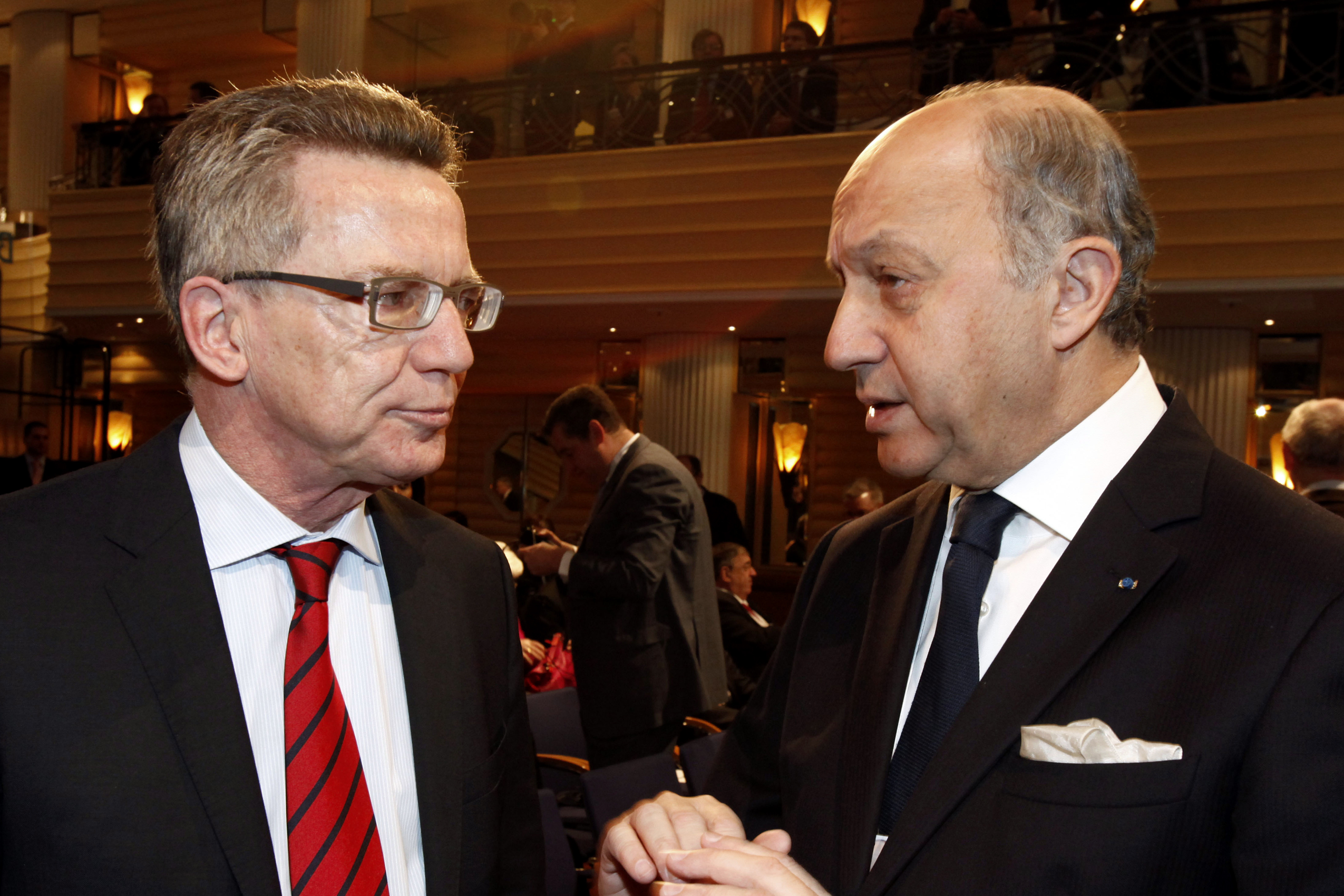 50th Munich Security Conference 2014: Thomas de Maizière and Laurent Fabius: Thomas de Maizière (Federal Minister of the Interior, Federal Republic of Germany) and Laurent Fabius (Minister of Foreign and European Affairs, French Republic).